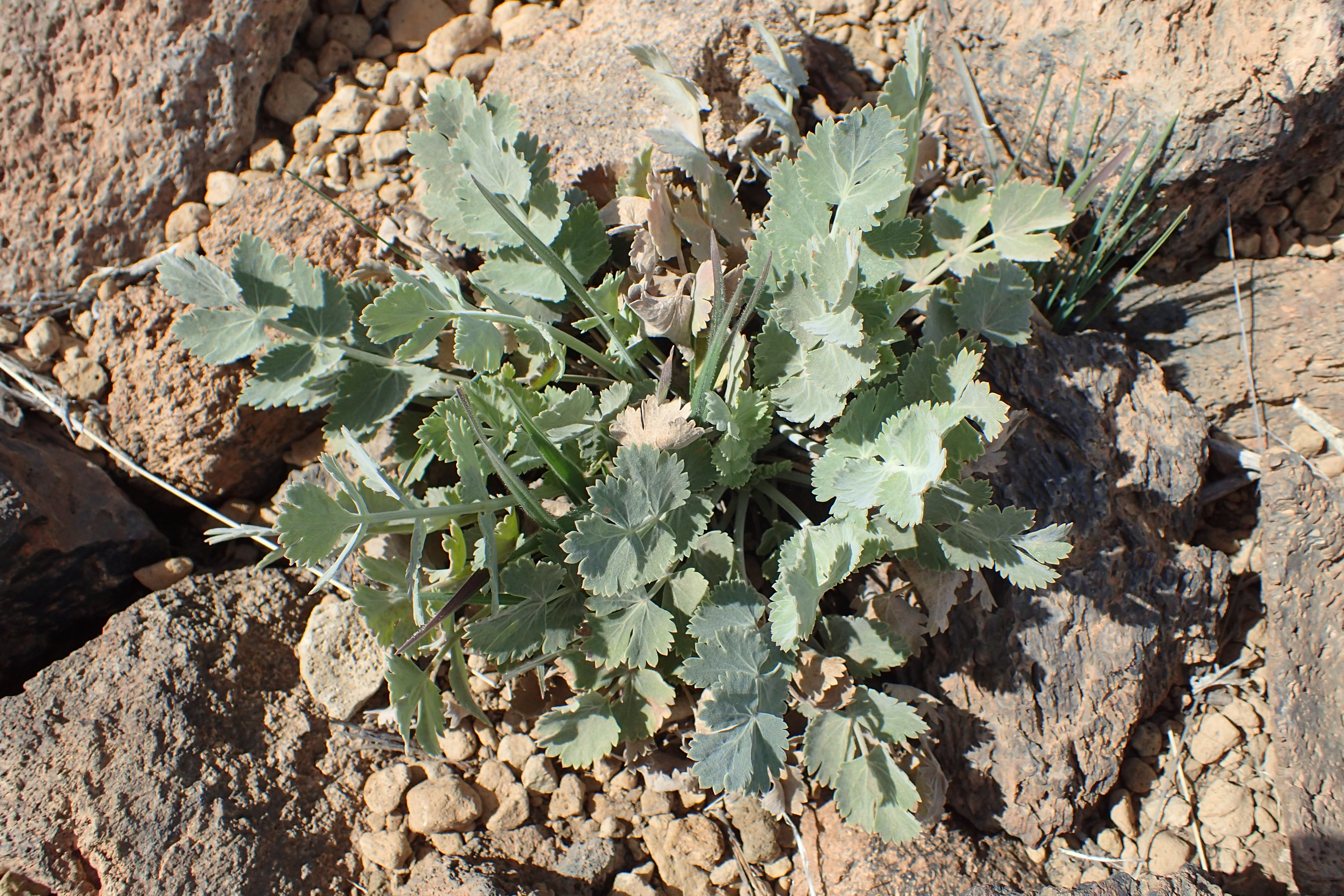 Pimpinella cumbrae in Centro de Visitantes Los Canadas del Teide, Tenerife, Canary Islands